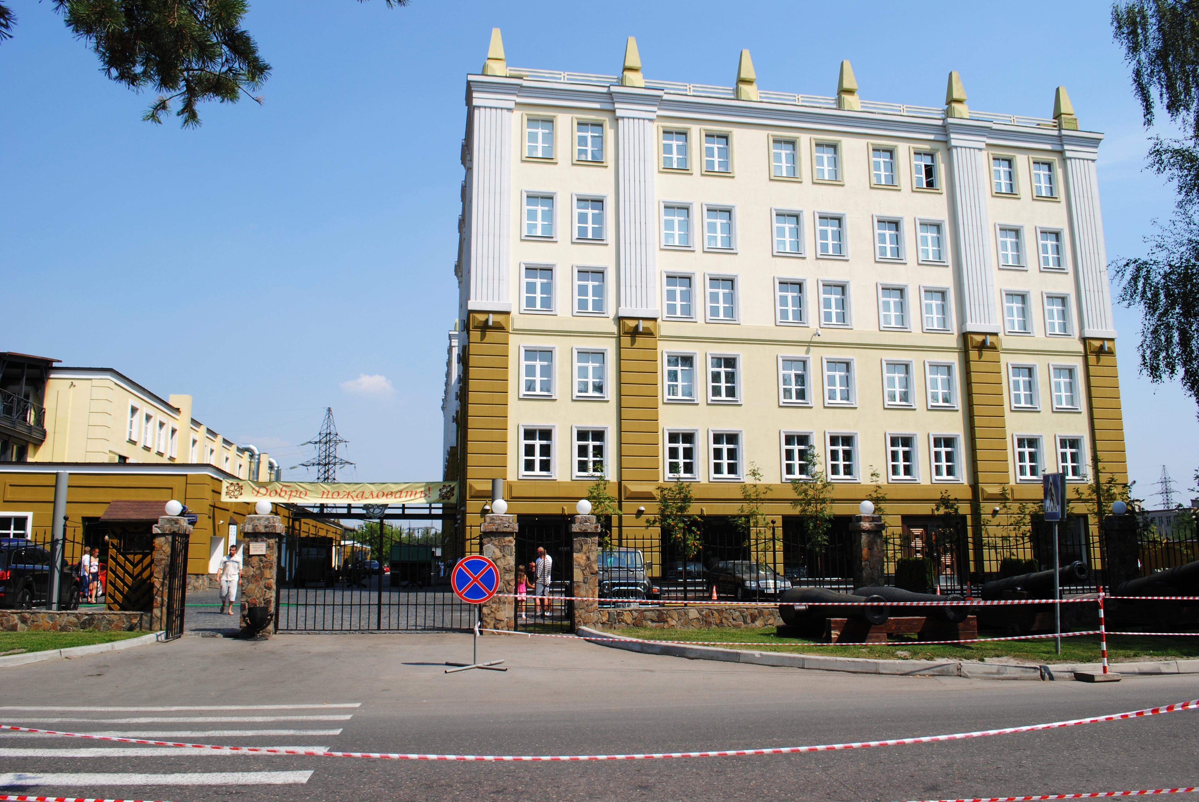 Museum of technique of Vadim Zadorogny